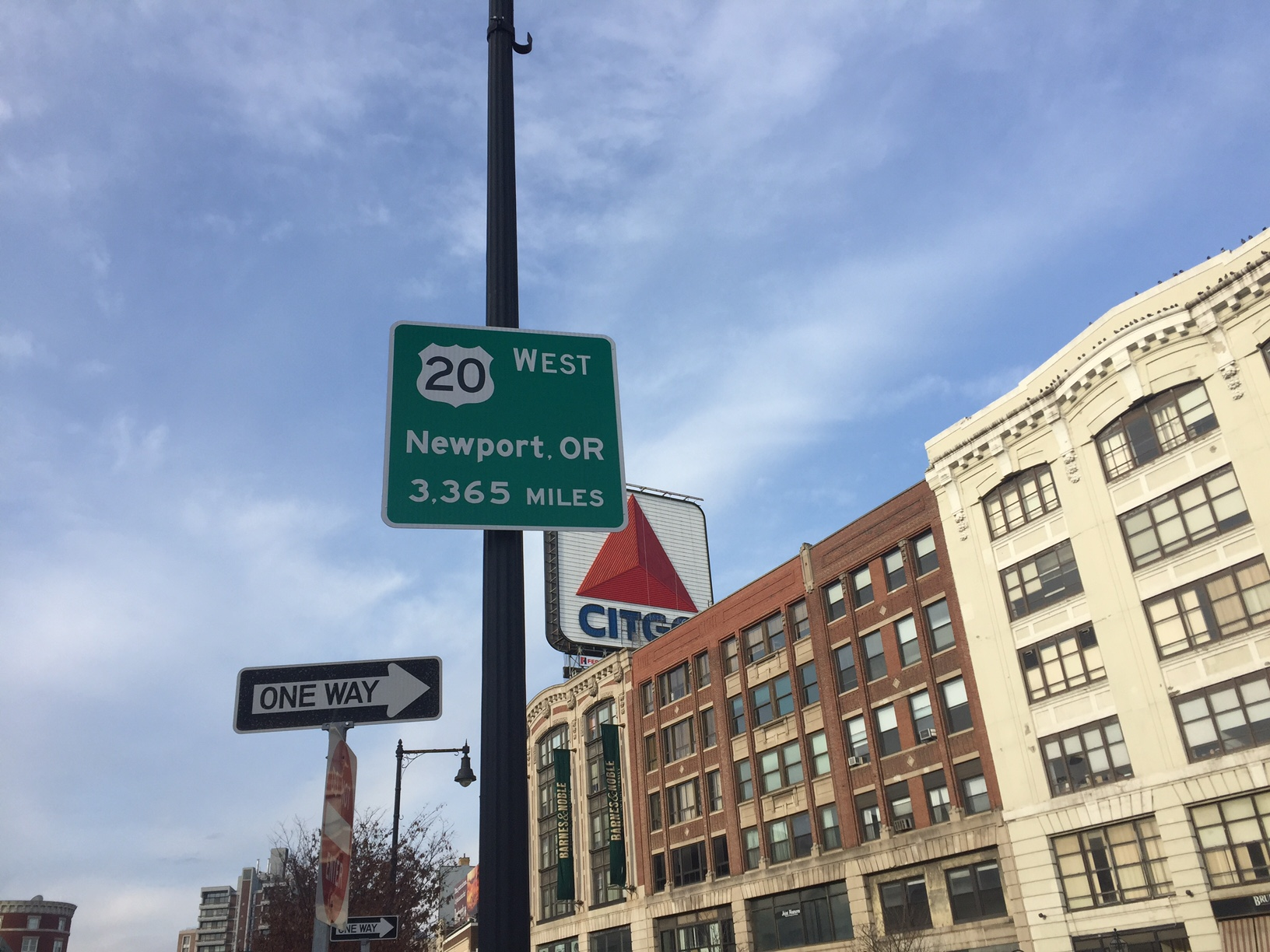 Traffic sign in Kenmore Square marking eastern terminus of U.S. Route 20 in Massachusetts.